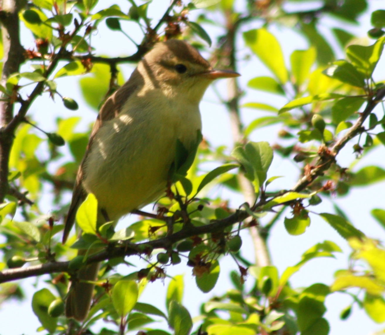 Hippolais polyglotta (Melodious Warbler)